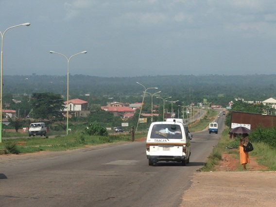 Onitsha-Enugu expressway in front of the Anambra GRA